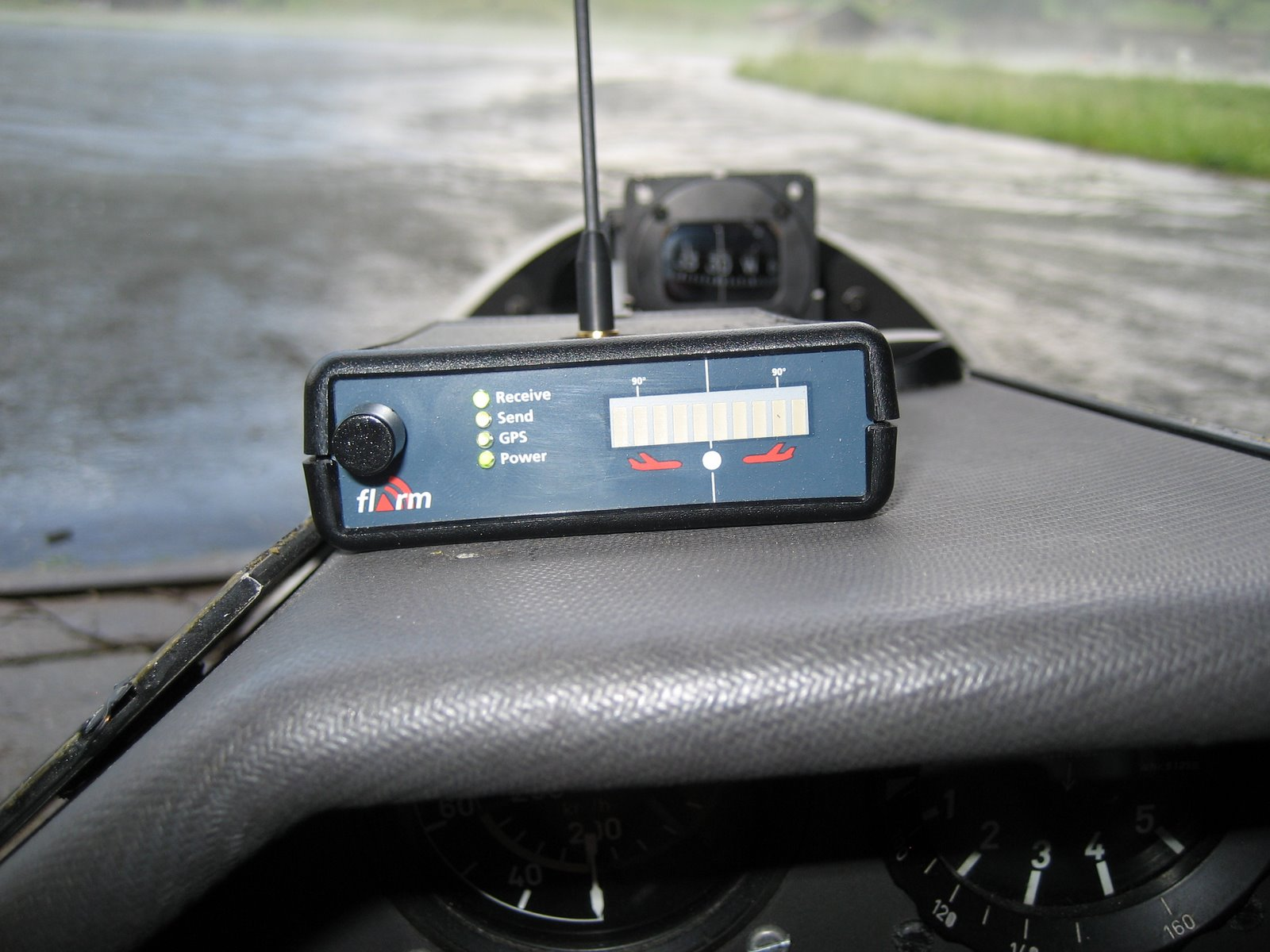 An early version (1st generation) of FLARM, showing the old horizontal display